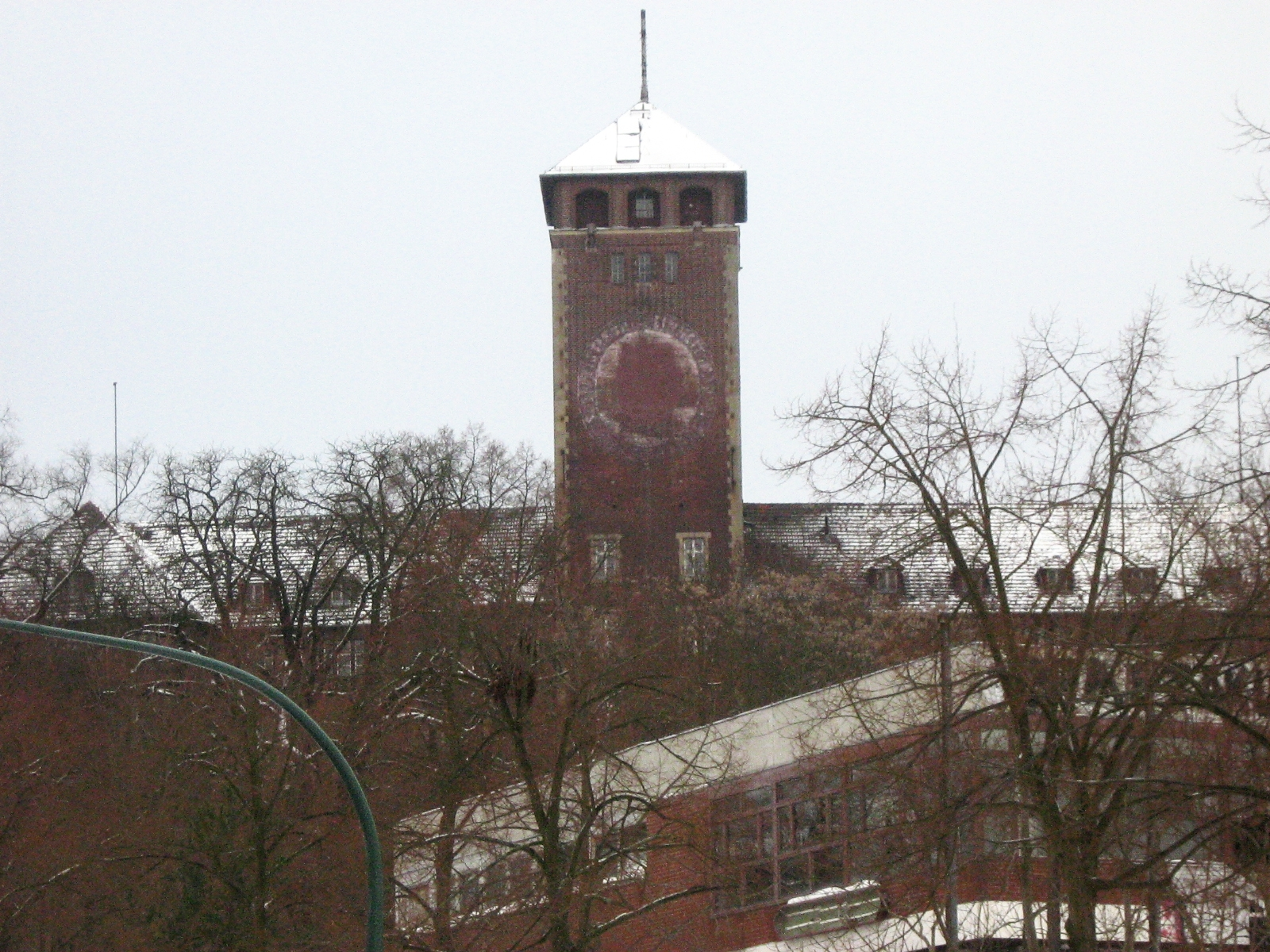 The „Military School building“ on the Brauhausberg in Potsdam was built 1902, from 1919 to 1945 it was used as Reichsarchives and des military archives. From 1948 to 1990 it housed the regional party leadership team ("SED Bezirksleitung"/ BL) and the sectional leadership team ("SED-Kreisleitung") Potsdam of the Socialist Unity Party of Germany (German: Sozialistische Einheitspartei Deutschlands, SED), from 1991 until 2013 it was used by the Landtag of Brandenburg. In the foreground the former restaurant „Minsk“.